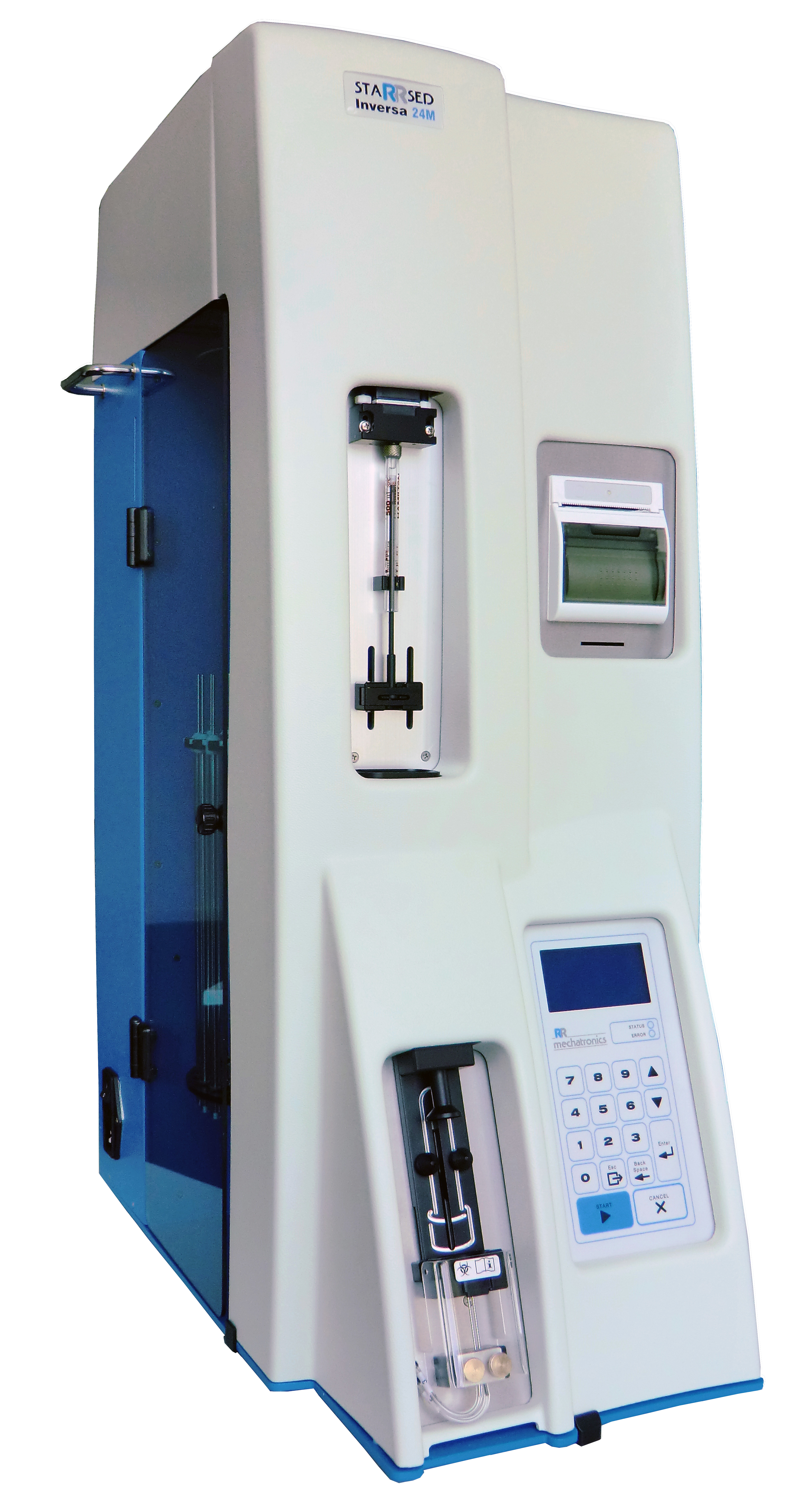 Automated Westergren ESR analyzer: one of the StaRRsed family of pure Westergren based ESR analyzers